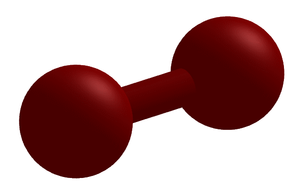 Ball-and-stick Model of Bromine